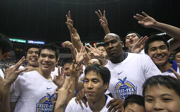 Coach Norman Black and Ateneo de Manila University players